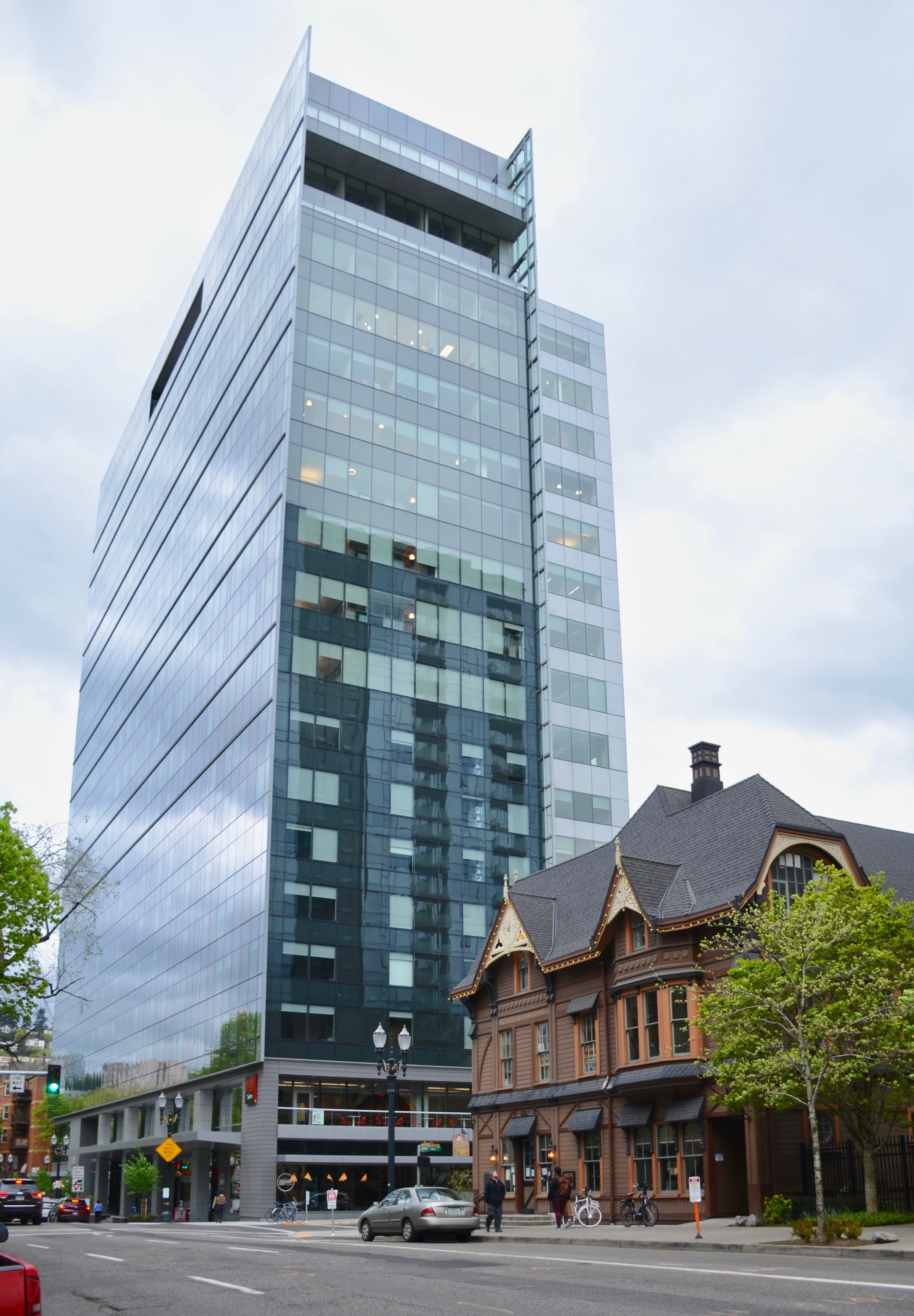 The Broadway Tower, in downtown Portland, Oregon, from the northeast. In the foreground is the historic Ladd Carriage House.